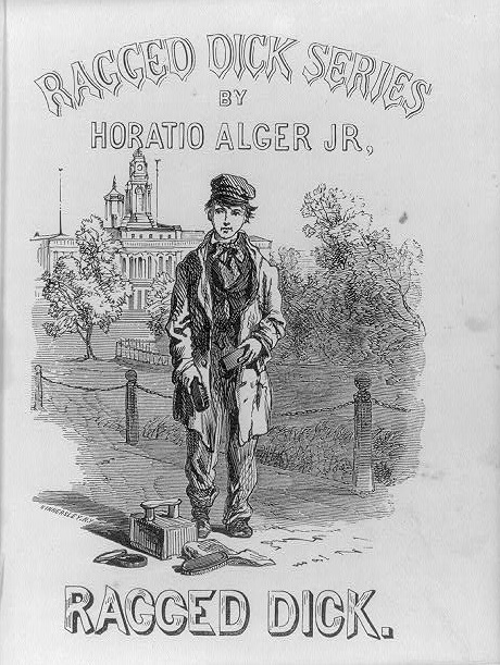 Illustration from Ragged Dick